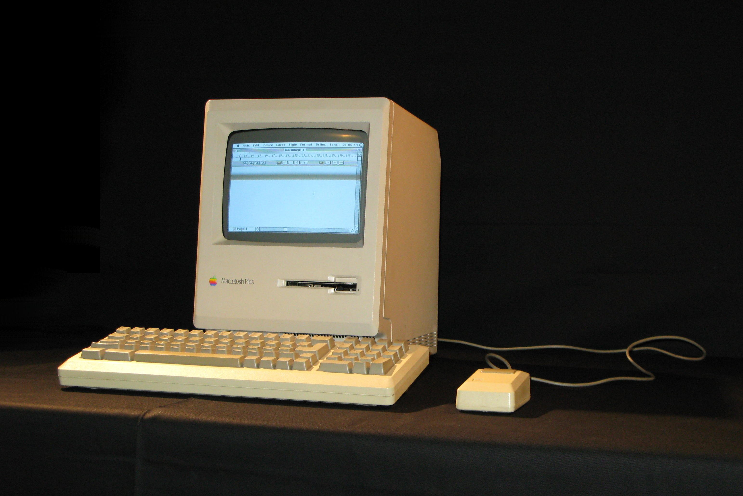 Macintosh Plus